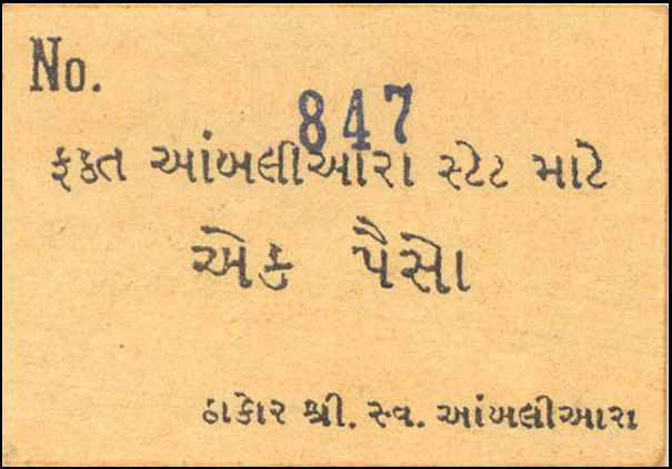 Ambliara State banknote, recto